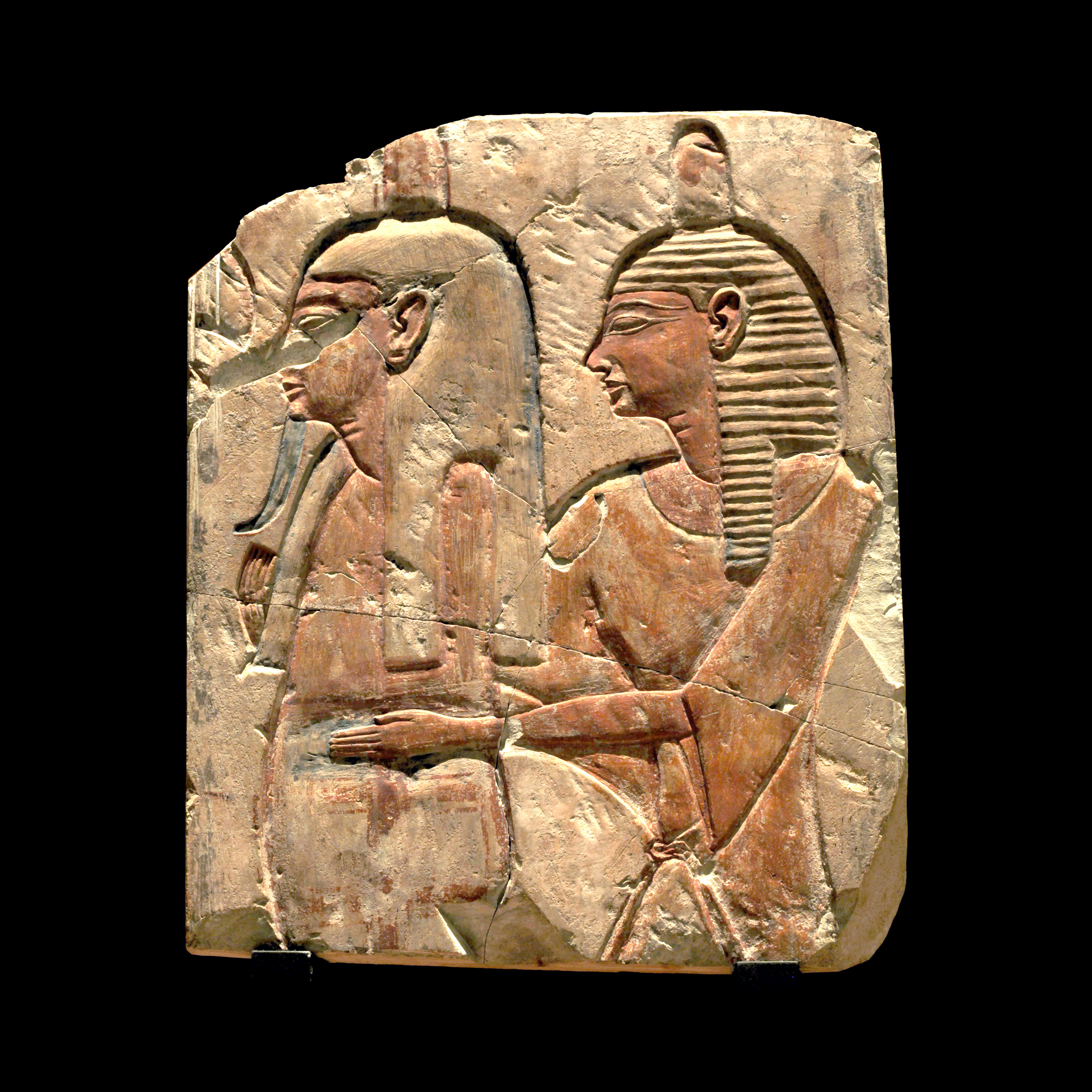 Bas-relief of a tumb: priest holding the mummy of the deceased.